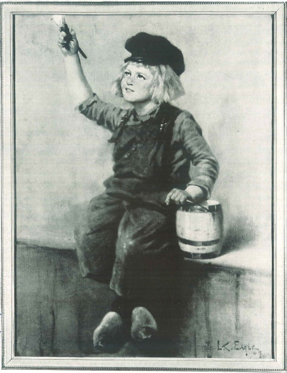 Title: Dutch Boy Painter Media: Oil on Canvas Signed: Lower Right L C EARLE '07 Painted in 1907, Mr. Earle died in 1921 per the description below the painting in the book shown. Extracted from the PDF shown in the link. Not sure when the painting was first published, but was reproduced in a magazine-style booklet tribute to the artist a year after his death, in 1922. Therefore also public domain in the US, as was published (here at least) before 1923.